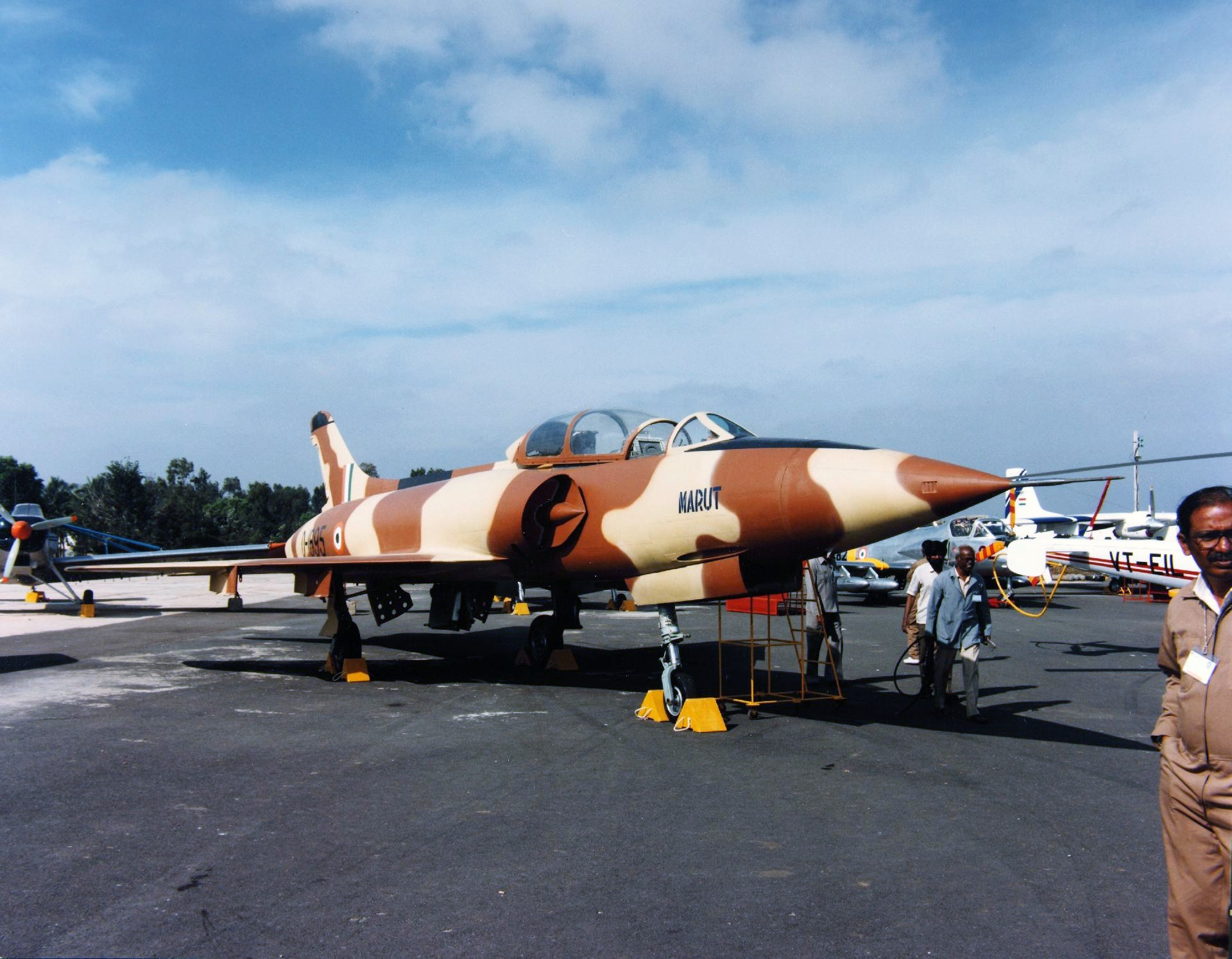 Catalog #: 01_00081377 Title: HAL (Hindustan Aeronautics), HF-24, Marut Corporation Name: HAL (Hindustan Aeronautics) Official Nickname: Marut Additional Information: India Designation: HF-24 Tags: HAL (Hindustan Aeronautics), HF-24, Marut Repository: San Diego Air and Space Museum Archive